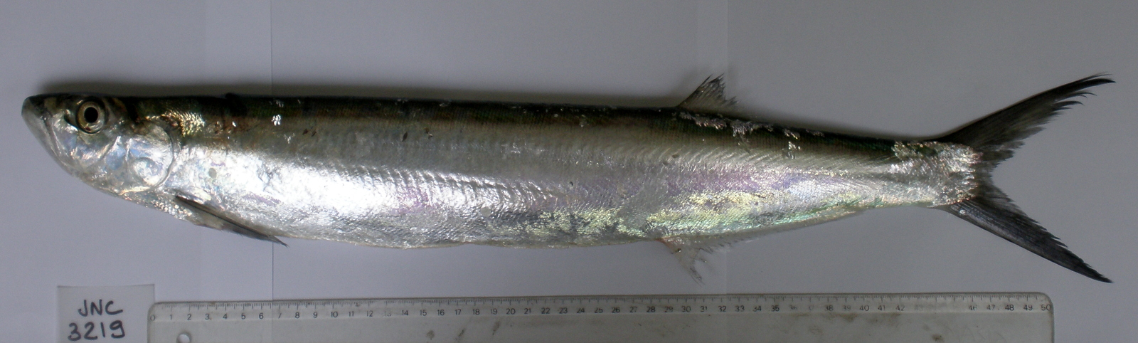 Chirocentrus dorab, from fishmarket, Nouméa, New Caledonia.